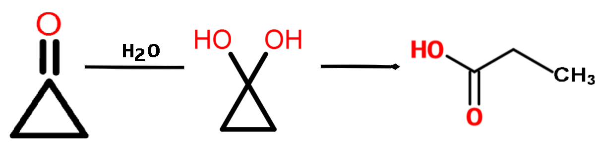 Cyclopropanone isomerization to propionic acid